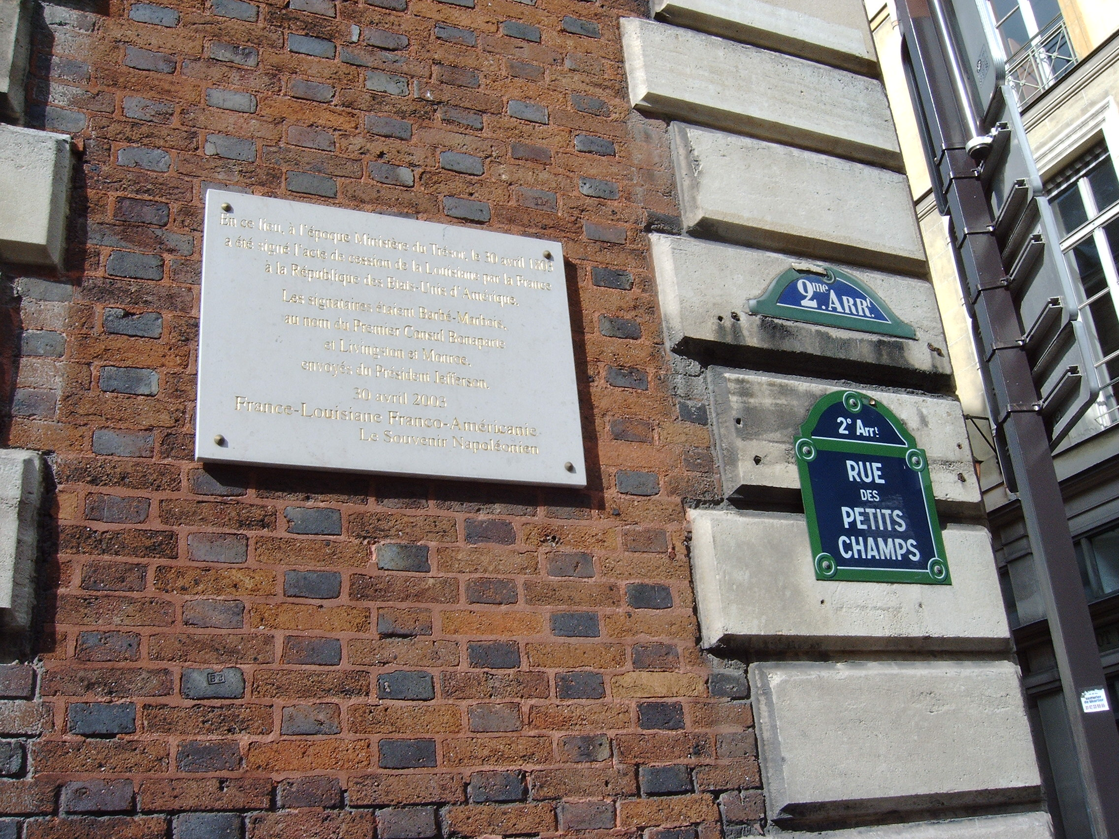 Plaque on the Hôtel Tubeuf in Paris, commemorating the Louisiana Purchase. The plaque reads: "In this place, at the time the Ministry of the Treasury, on 30 April 1803 the act of cession of Louisiana by France to the Republic of the United States of America was signed. The signatories were Barbé-Marbois, in the name of the Premier Consul Bonaparte and Livingston and Monroe, envoys of President Jefferson. / 30 April 2003 / France-Louisiane Franco-Américanie / Le Souvenir Napoléonien."